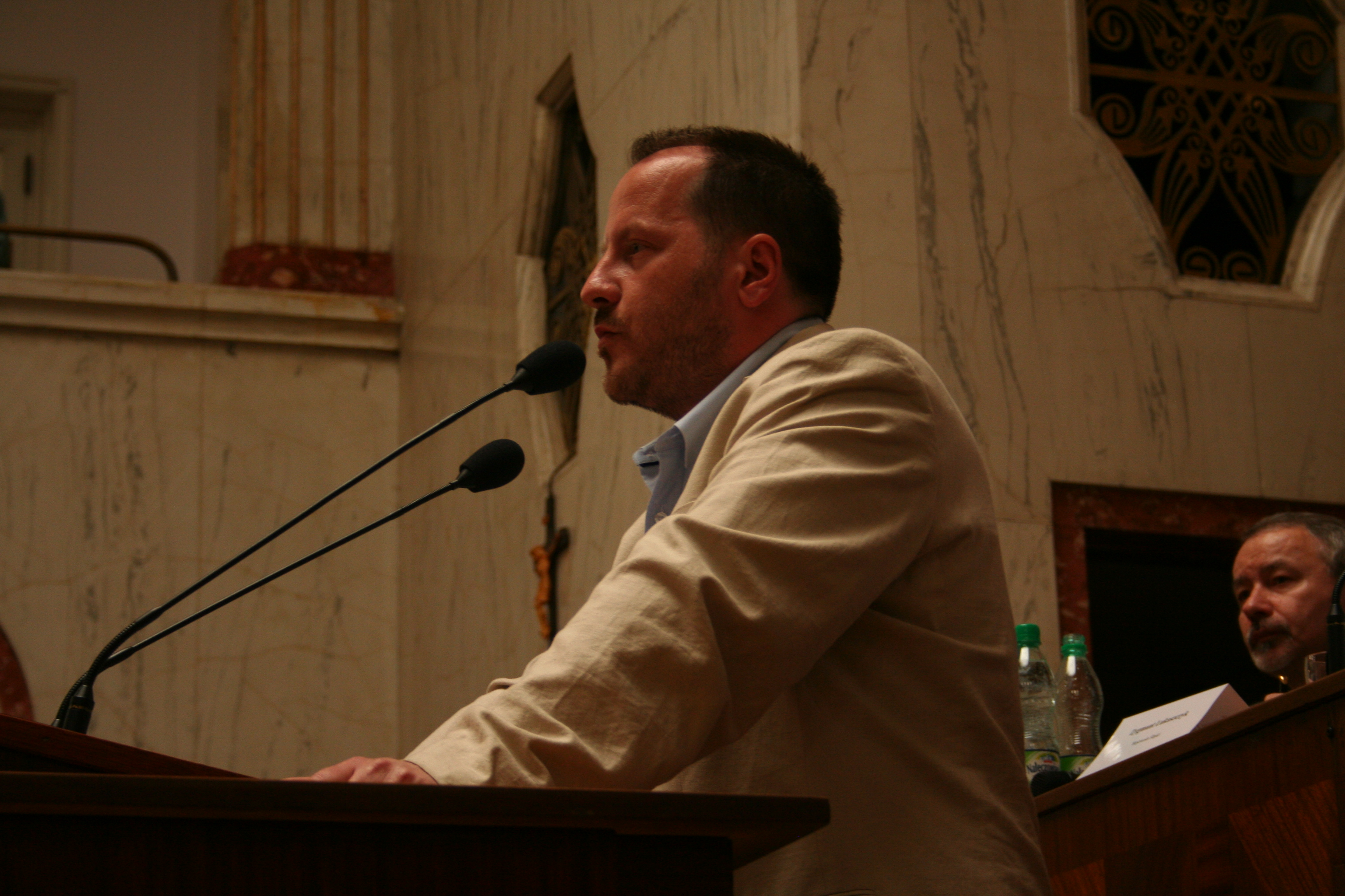 "Śląsko Godka" - Conference in Katowice